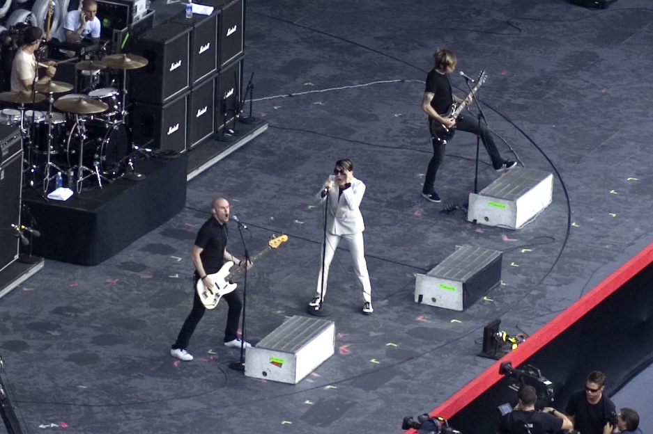 AFI performing at the Live Earth concert in New Jersey.